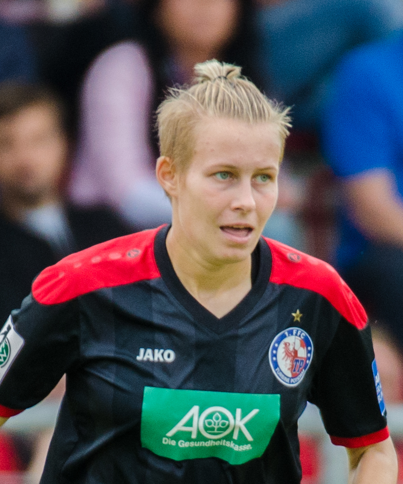 Match of the German Women's Football Bundesliga between 1.FFC Frankfurt and 1. FFC Turbine Potsdam, 2015-09-13